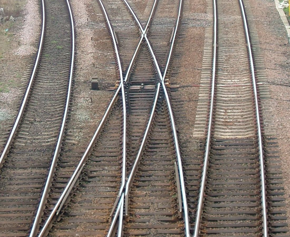 Switch diamond at Moorthorpe Junction, 17 February, 2007. Original digital image. Signalhead 17:58, 14 November 2007 (UTC)